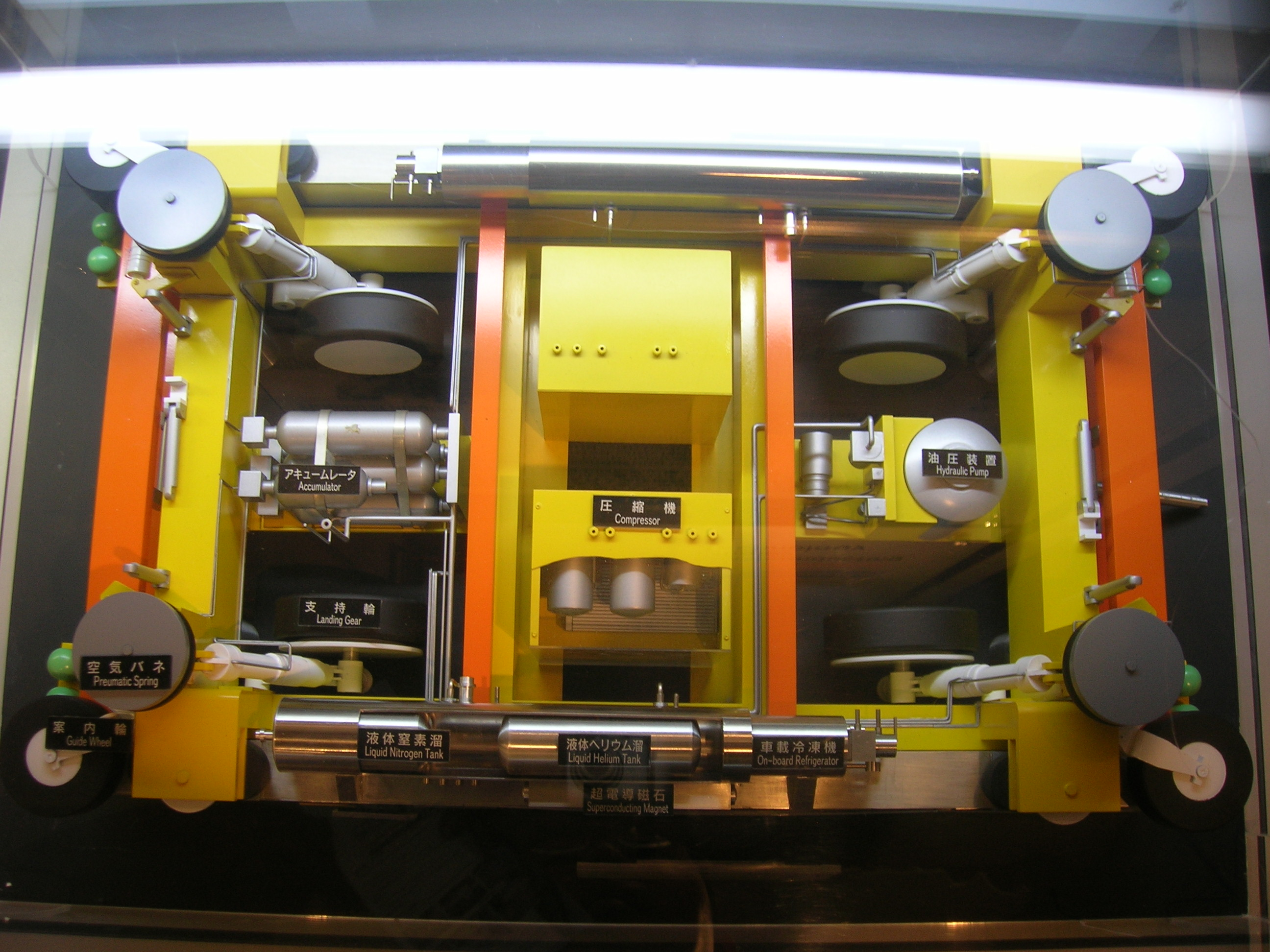 MLX01 maglev train Superconducting magnet Bogie. Photo by Yosemite.